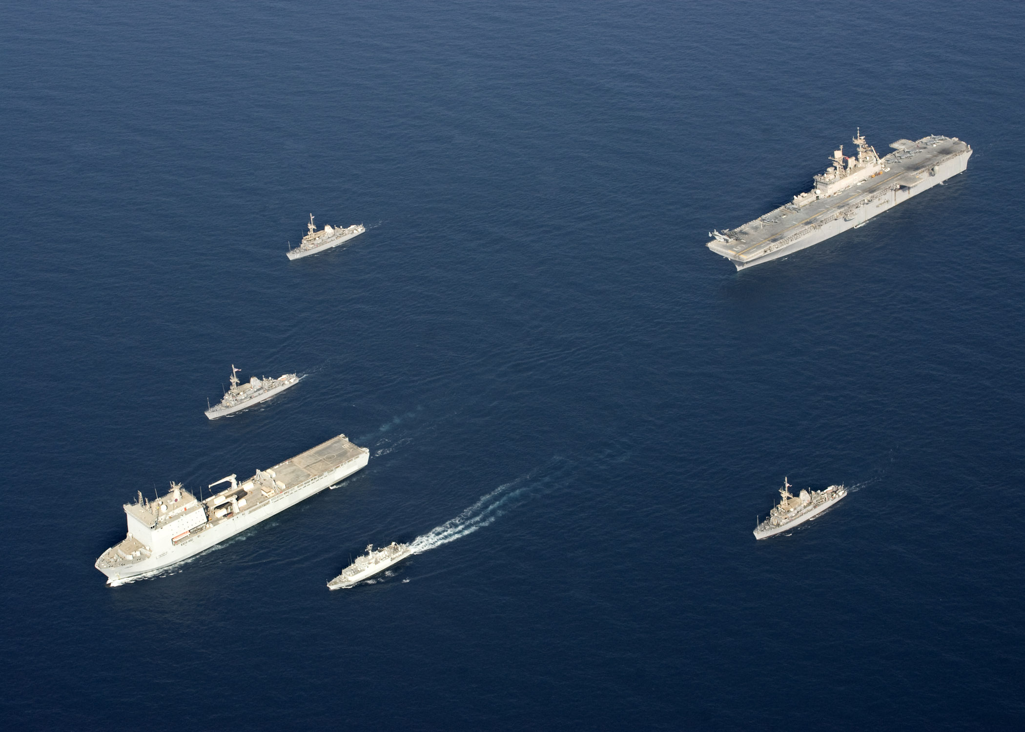 U.S. 5th FLEET AREA OF RESPONSIBILITY (Sept. 5, 2009) The Royal Navy fleet auxiliary ship Lyme Bay (L 3007) leads a formation of ships including the mine countermeasure ships USS Gladiator (MCM 11), USS Ardent (MCM 12), USS Dextrous (MCM 13), the Royal Navy single-role minehunter HMS Grimsby (M108) and the multi-purpose amphibious assault ship USS Bataan during a training exercise. The Bataan Amphibious Ready Group is conducting maritime security operations in the U.S. 5th Fleet area of responsibility. (U.S. Navy photo by Mass Communication Specialist 3rd Class Ryan Steinhour/Released)